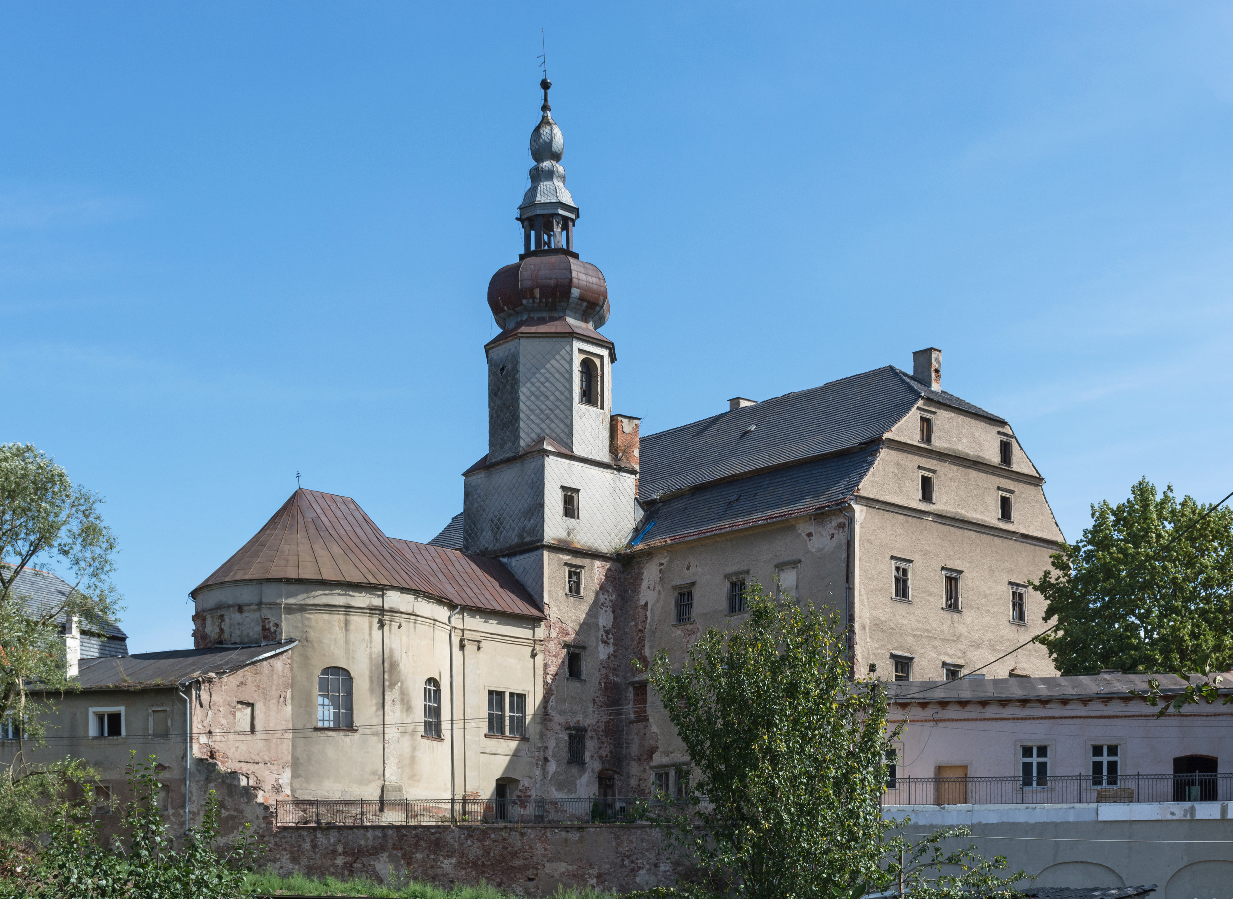 Sarny Palace